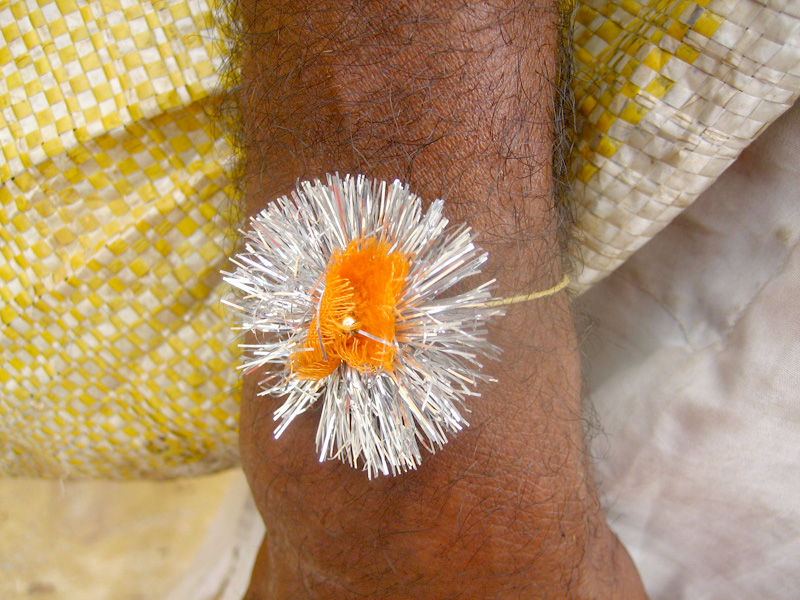 A Rakhi that would have been tied on September 9 2006. Raksha Bandhan is a Hindu festival which celebrates the relationship between brothers and sisters. It is celebrated on the full moon of the month of Shraavana. The festival is marked by the tying of a rakhi, or holy thread by the sister on the wrist of her brother. The brother in return offers a gift to his sister and vows to look after her. The brother and sister traditionally feed each other sweets.